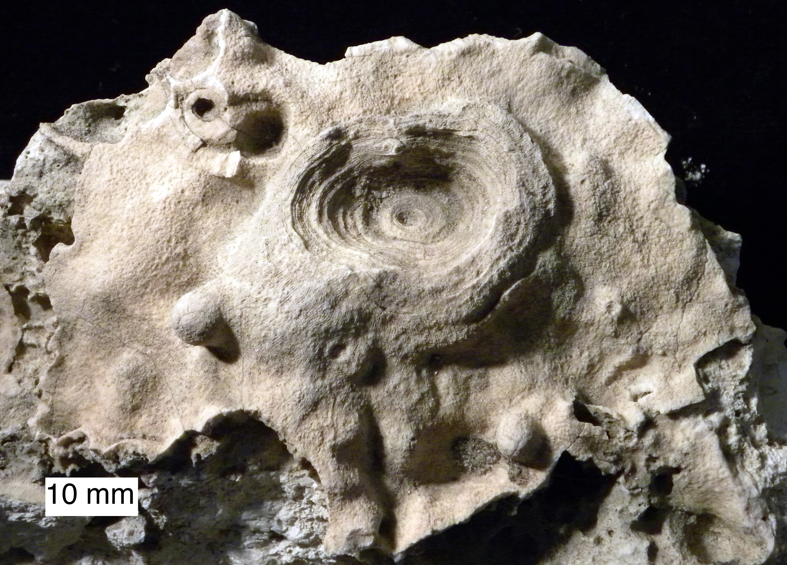 Octocoral holdfast on a limestone substrate (Pleistocene, Sicily); collected by A. Vertino.